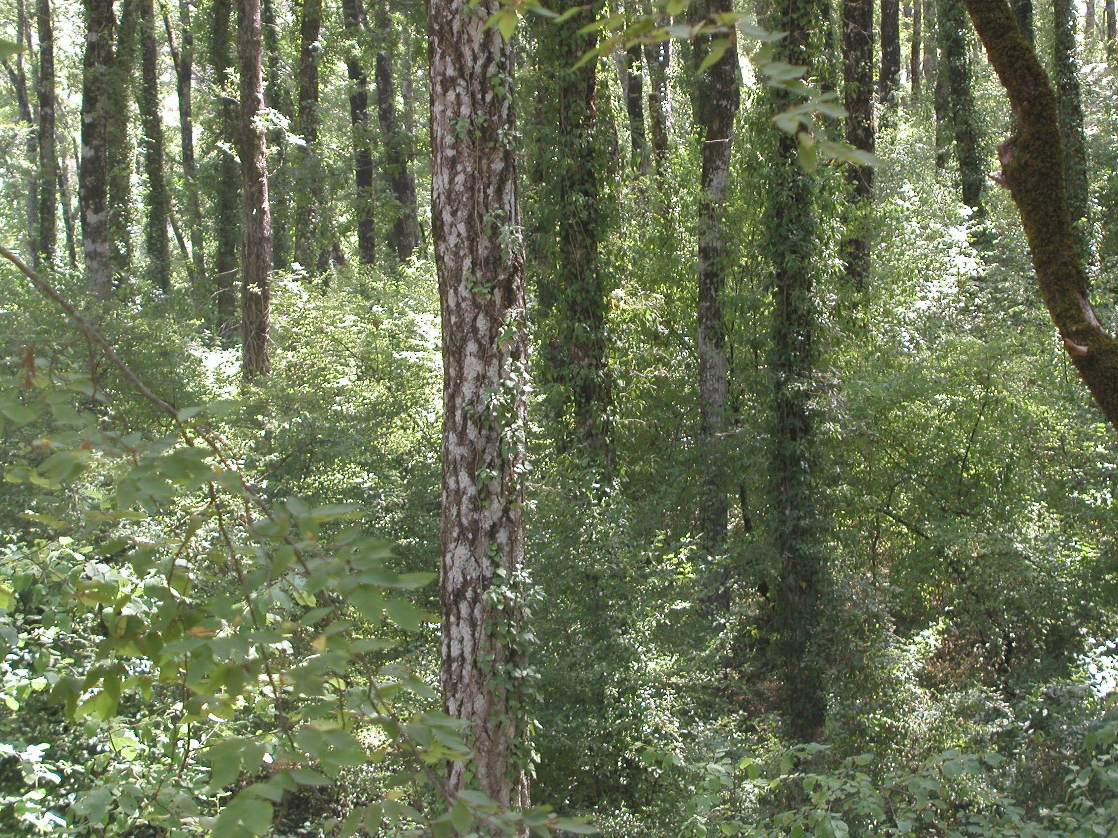 Vegetation in the protected rainy forest of Frenlq (Latakia)